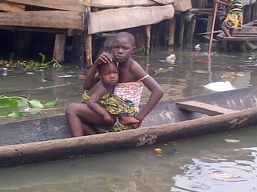 Kids on water : Canoe is the usual mode of transportation in Makoko, Lagos, Nigeria